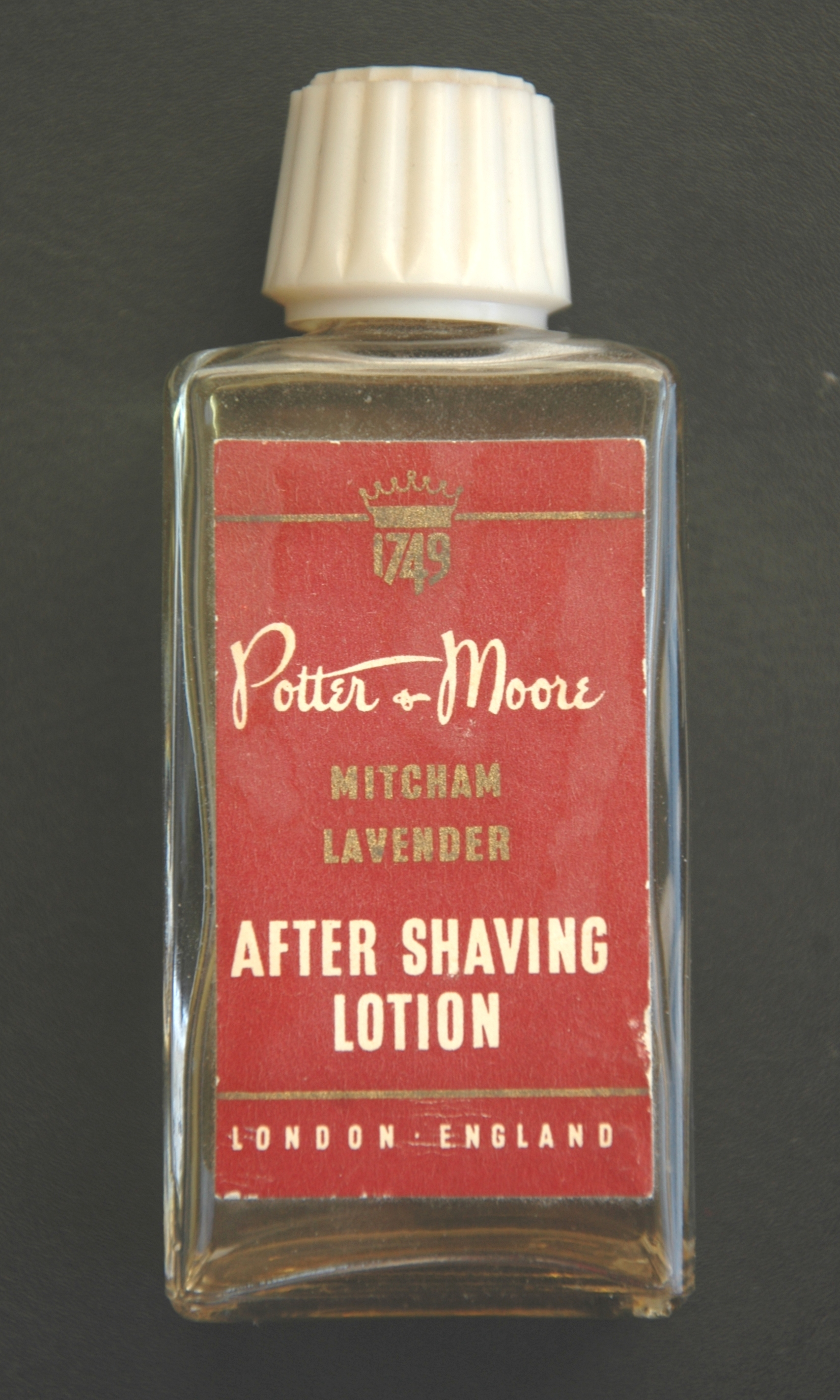 Bottle for Potter & Moore lavender aftershave